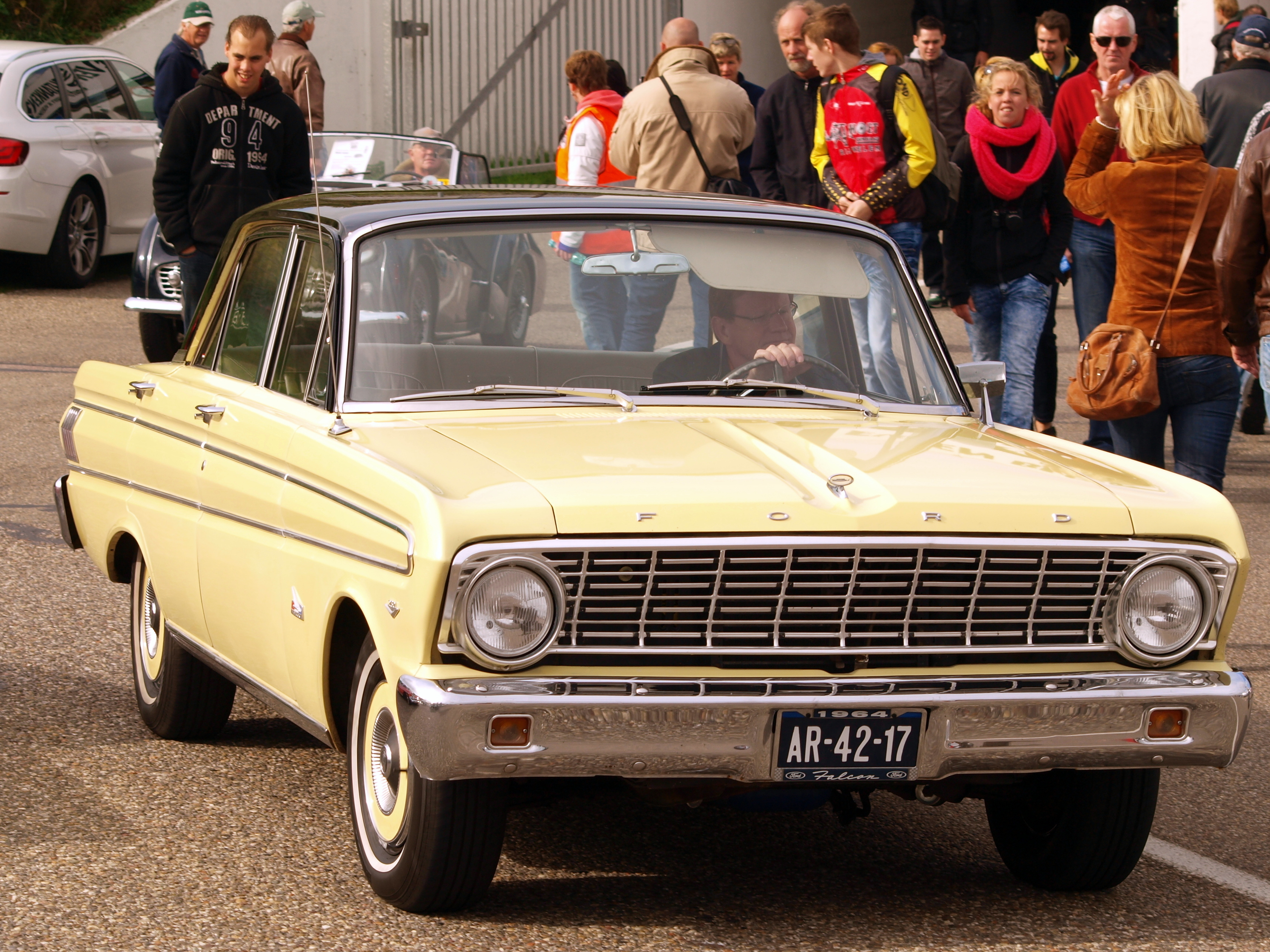 Photographed at the Nationaal Oldtimer Festival Zandvoort 2012. 1964 Ford Falcon